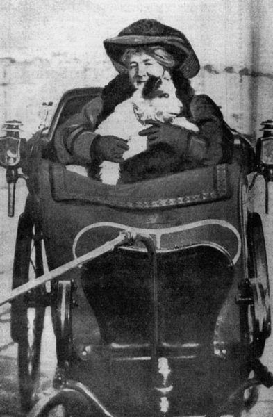 Katharine O'Shea (1846–1921)